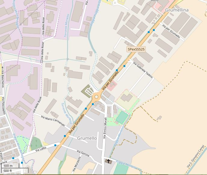 Bergamo, Grumello del Piano This map may be incomplete, and may contain errors. Don't rely solely on it for navigation.